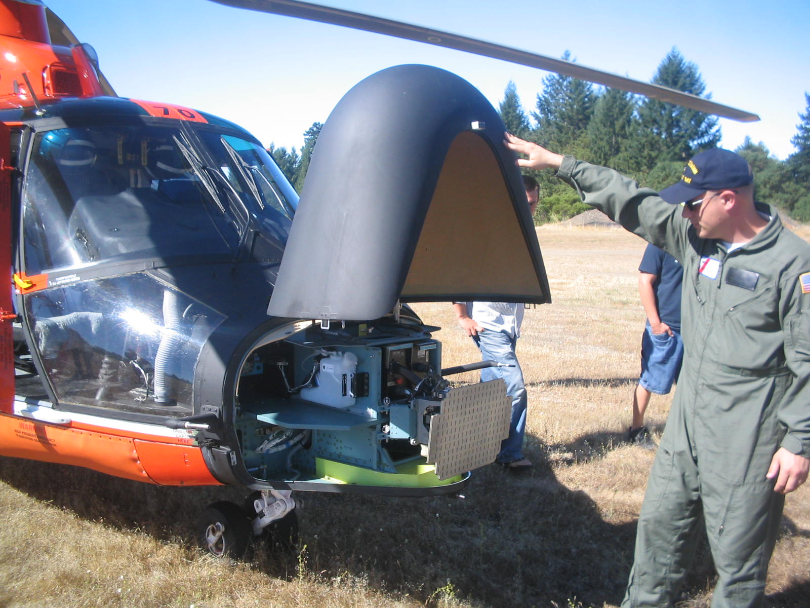 The radar of an HH-65C helicopter